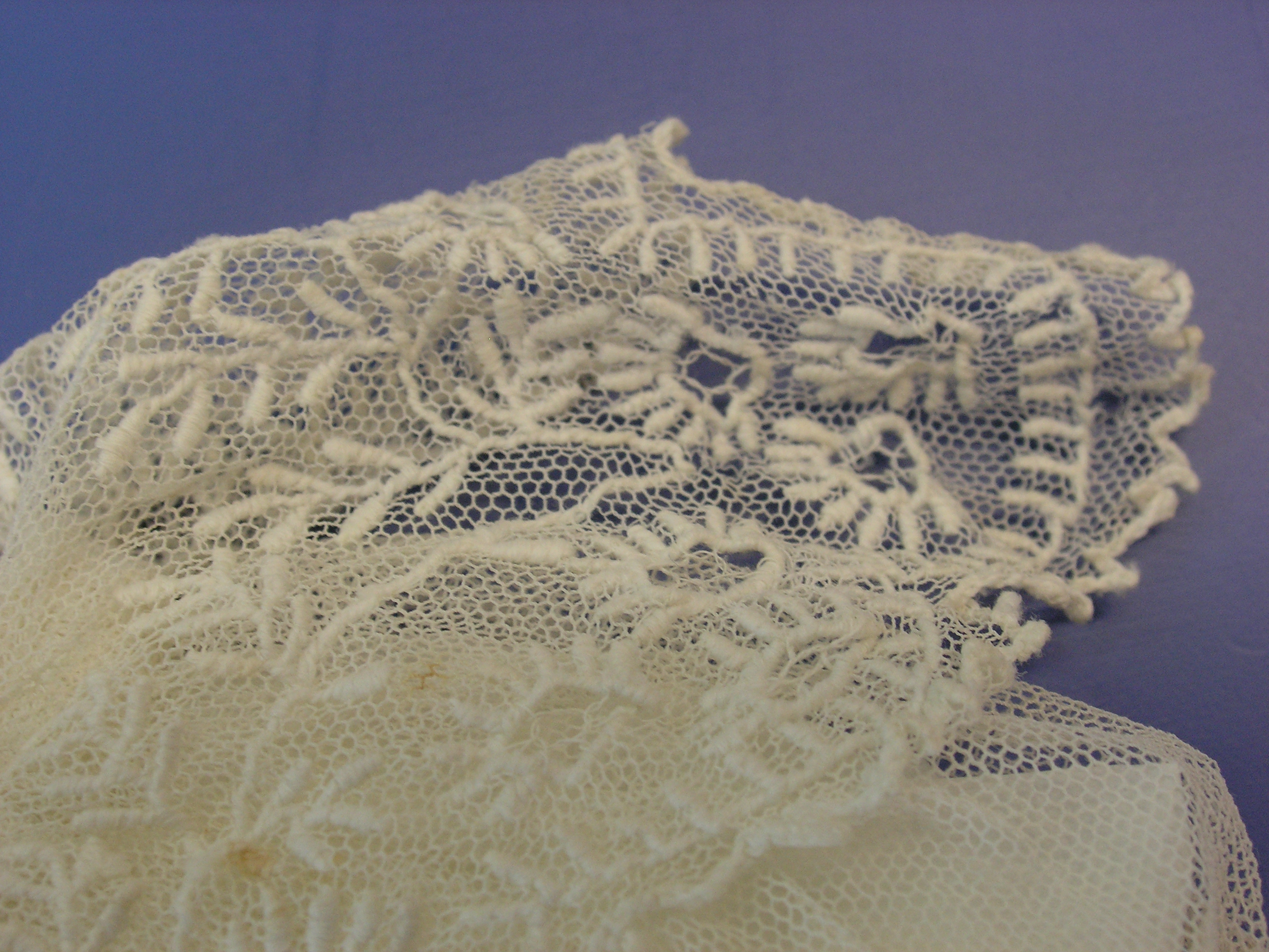 Bodice, infant's. lawn and machine made net, Tambour embroidered front panel (Limerick-type), trimmed with 35mm lace edging, bobbin, baby lace at neck and sleeves.